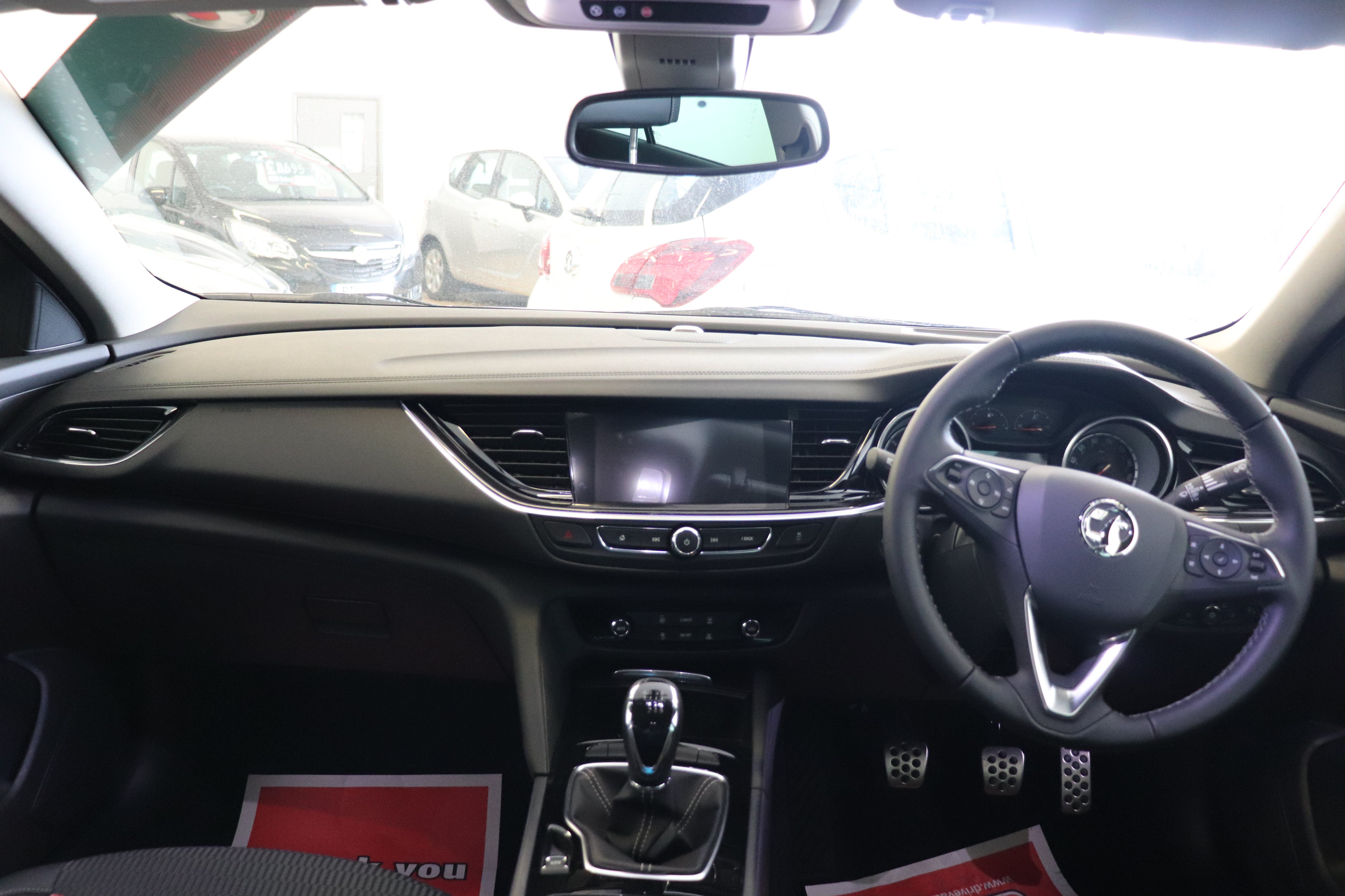 2018 Vauxhall Insignia SRi Interior Taken in Warwick